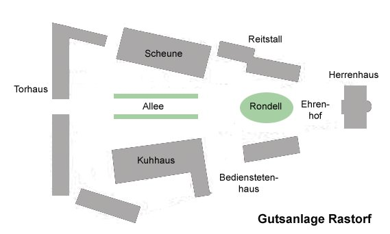 Estate Rastorf, floor plane, (Schleswig-Holstein, Germany) , from 2011